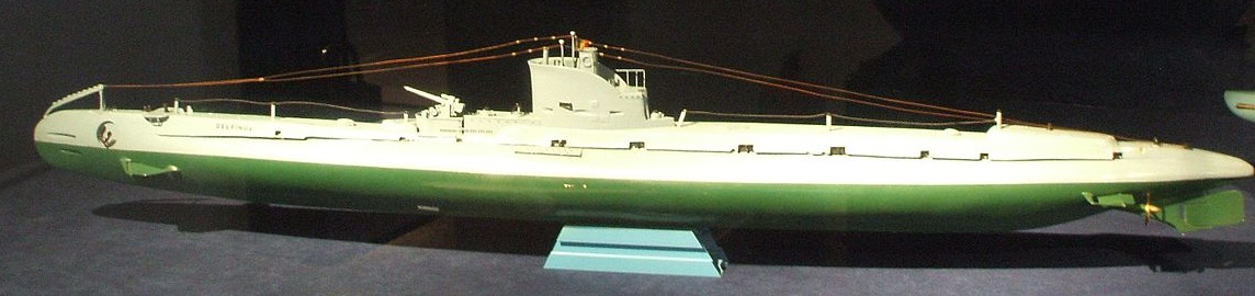 Scale model of Delfinul submarine on display at the Romanian Navy Museum (Constanța).